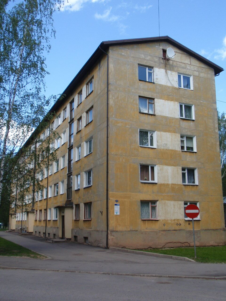 An apartment building (Allika 4) in Valga, Estonia.